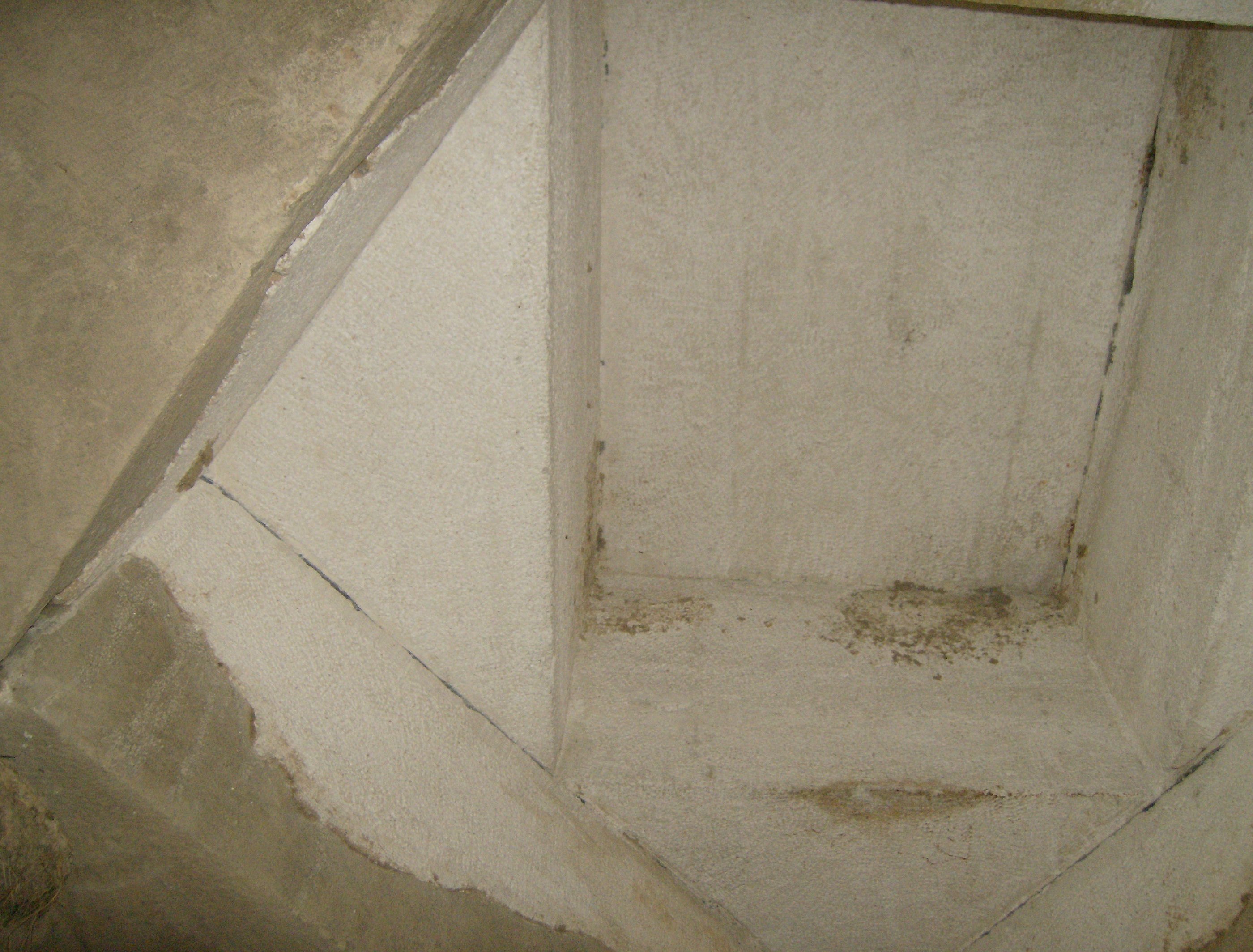 Thracian tumulus near the town of Strelcha, Bulgaria